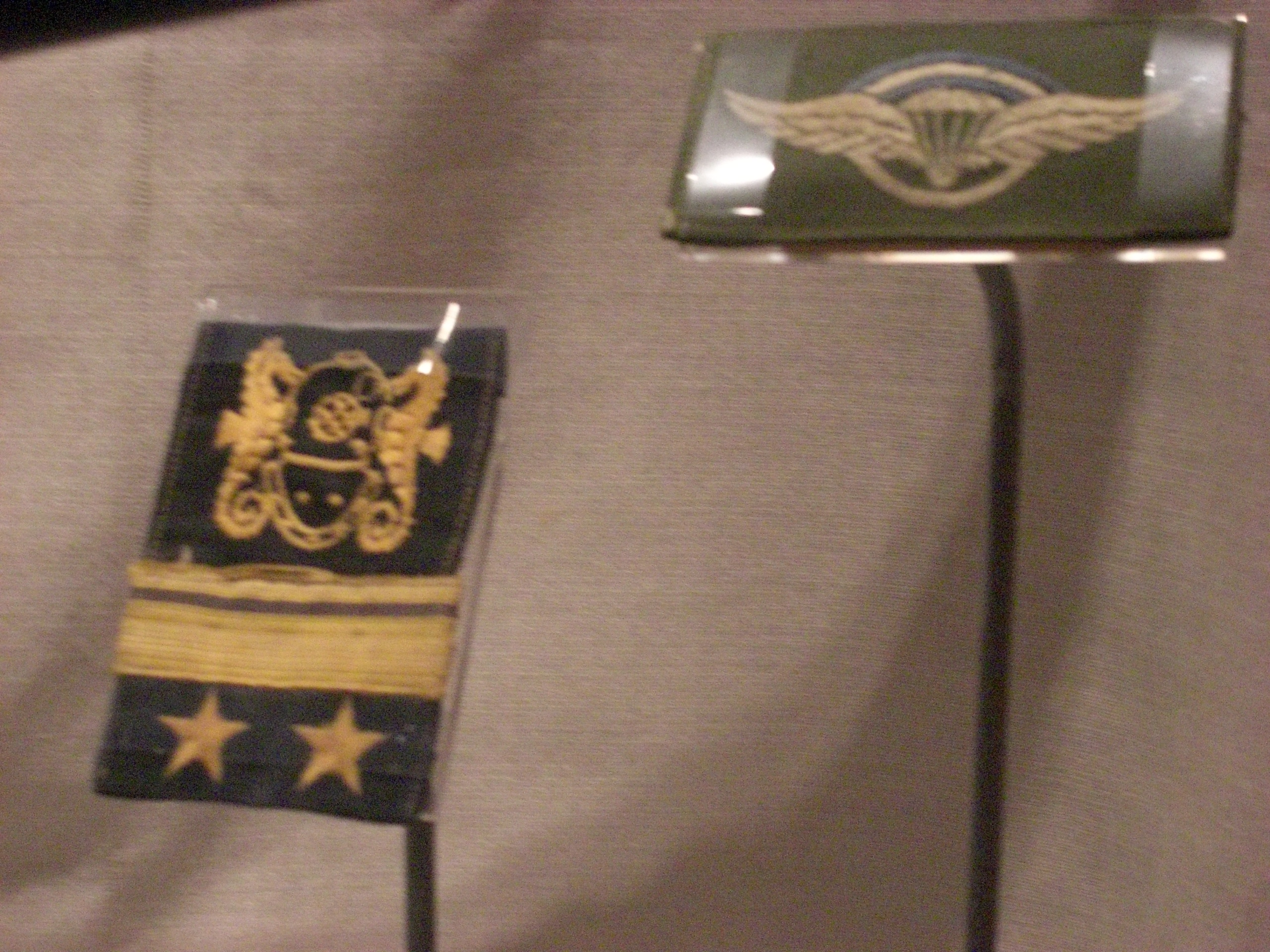 Picture of argentinian N.C.O. (Suboficial Segundo) badges exhibited in the Imperial War Museum, London.